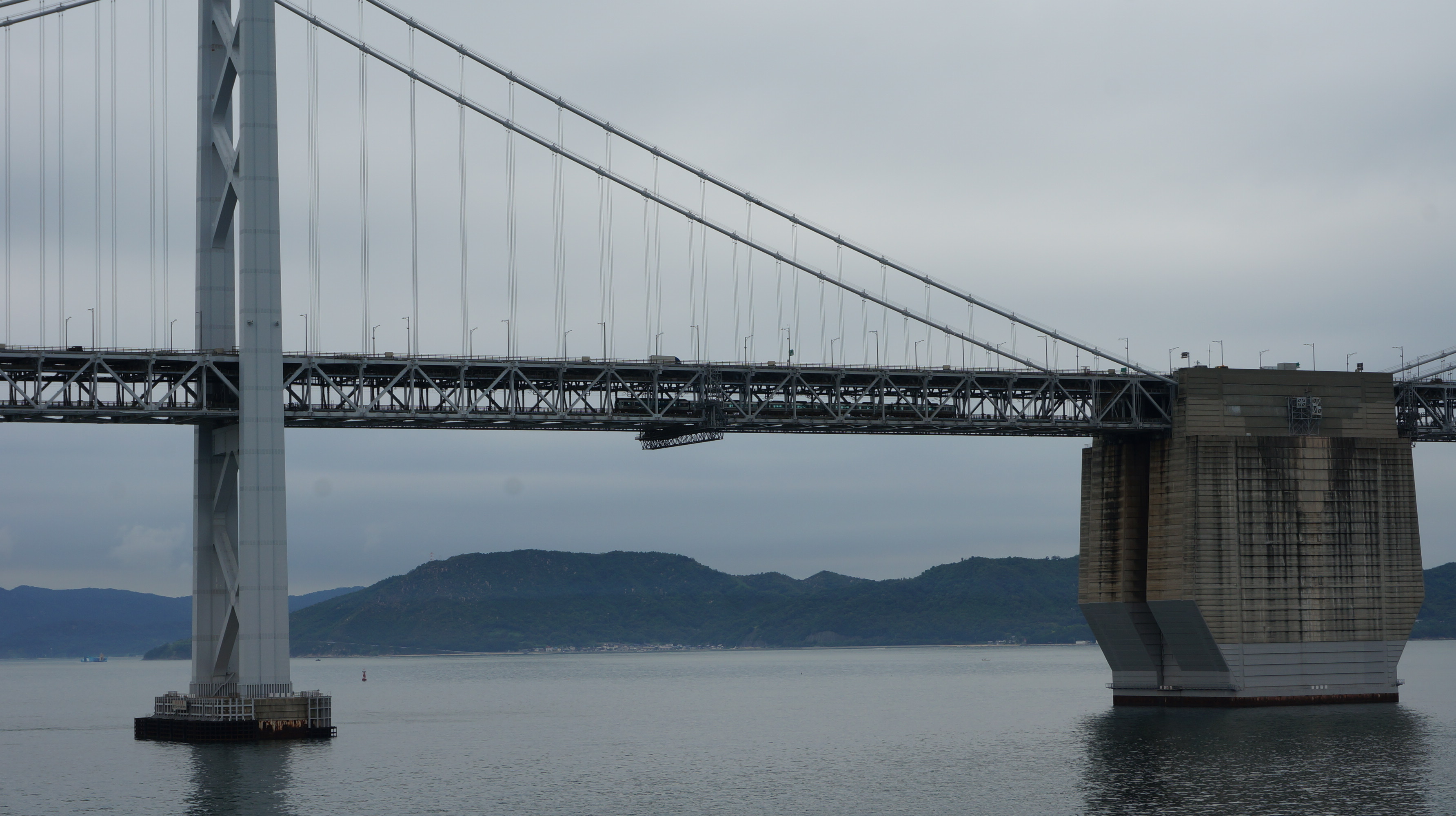 Anchorage-4A and tower foundation-5P of South And North Bisan-Seto Bridge.